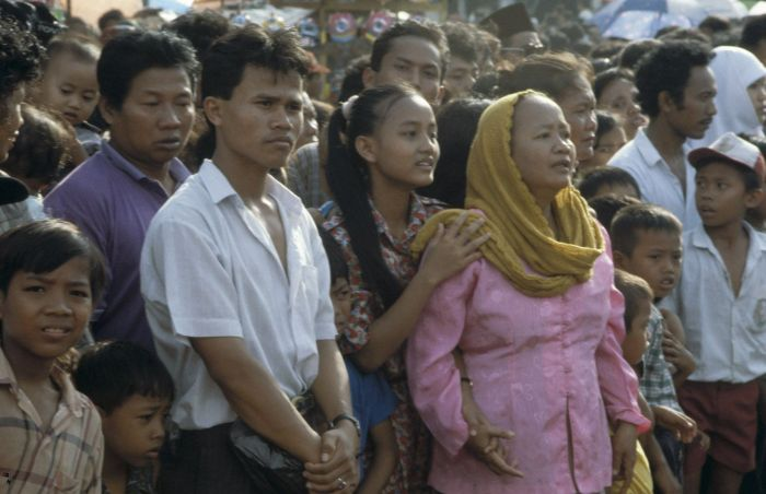 People watching the procession through the streets of Semarang on the eve of Ramadan